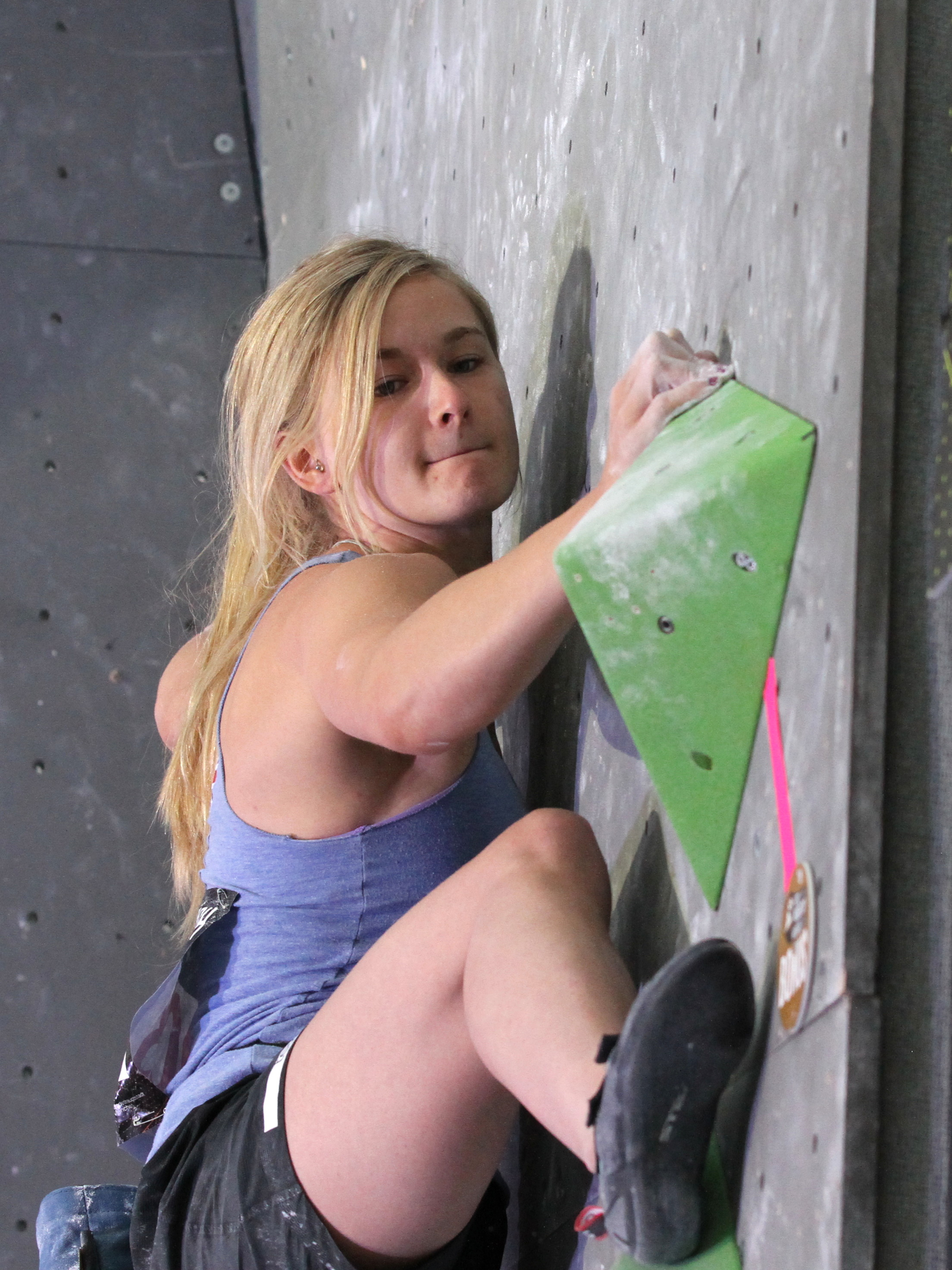 IFSC Boulder Worldcup, Munich 2015. Shauna Coxsey (GBR)